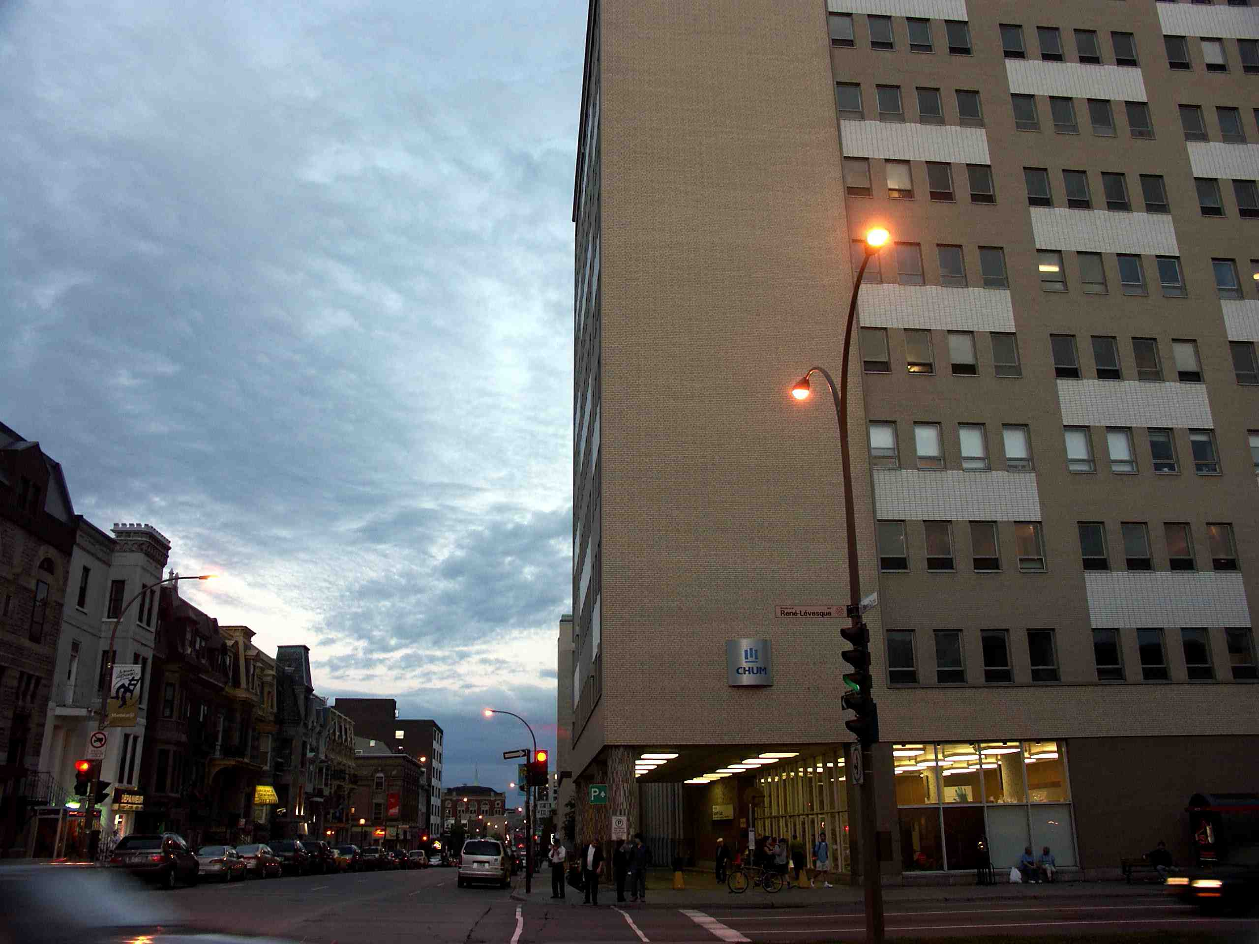 The CHUM-Hôpital Saint-Luc, in Montréal, September 2005. Photo by User:Gene.arboit.